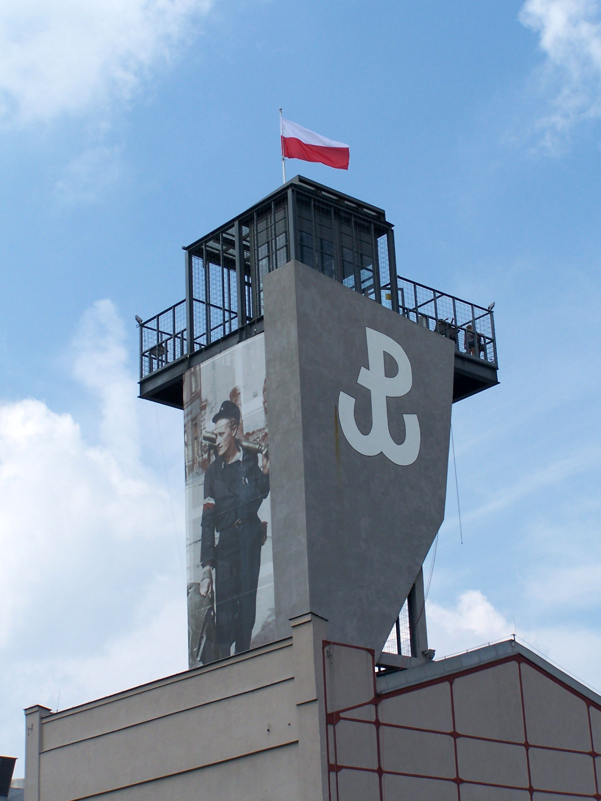 Warsaw Uprising Museum in Warsaw, Poland